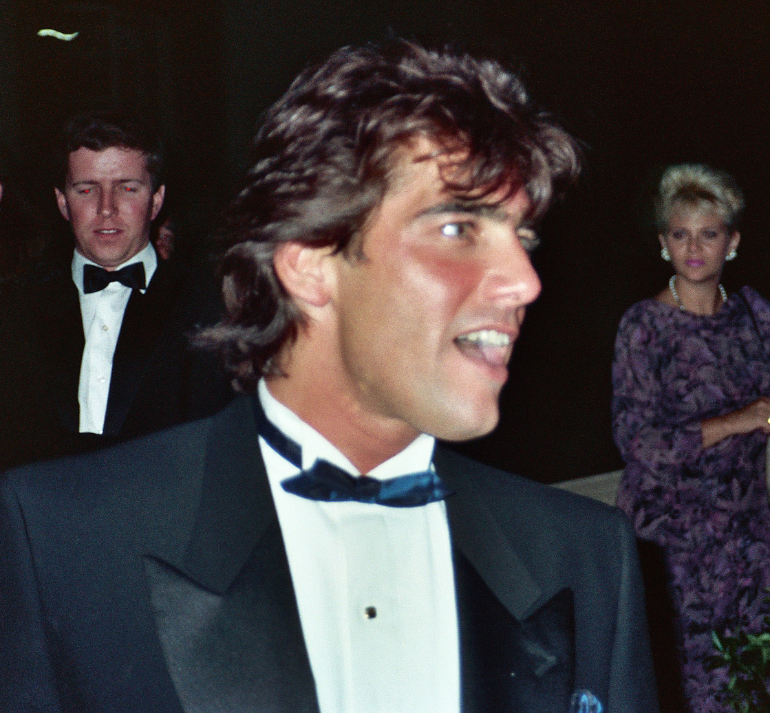 Photo taken at the 41st Emmy Awards 9/17/89 - Permission granted to copy, publish or post but please credit "photo by Alan Light" if you can